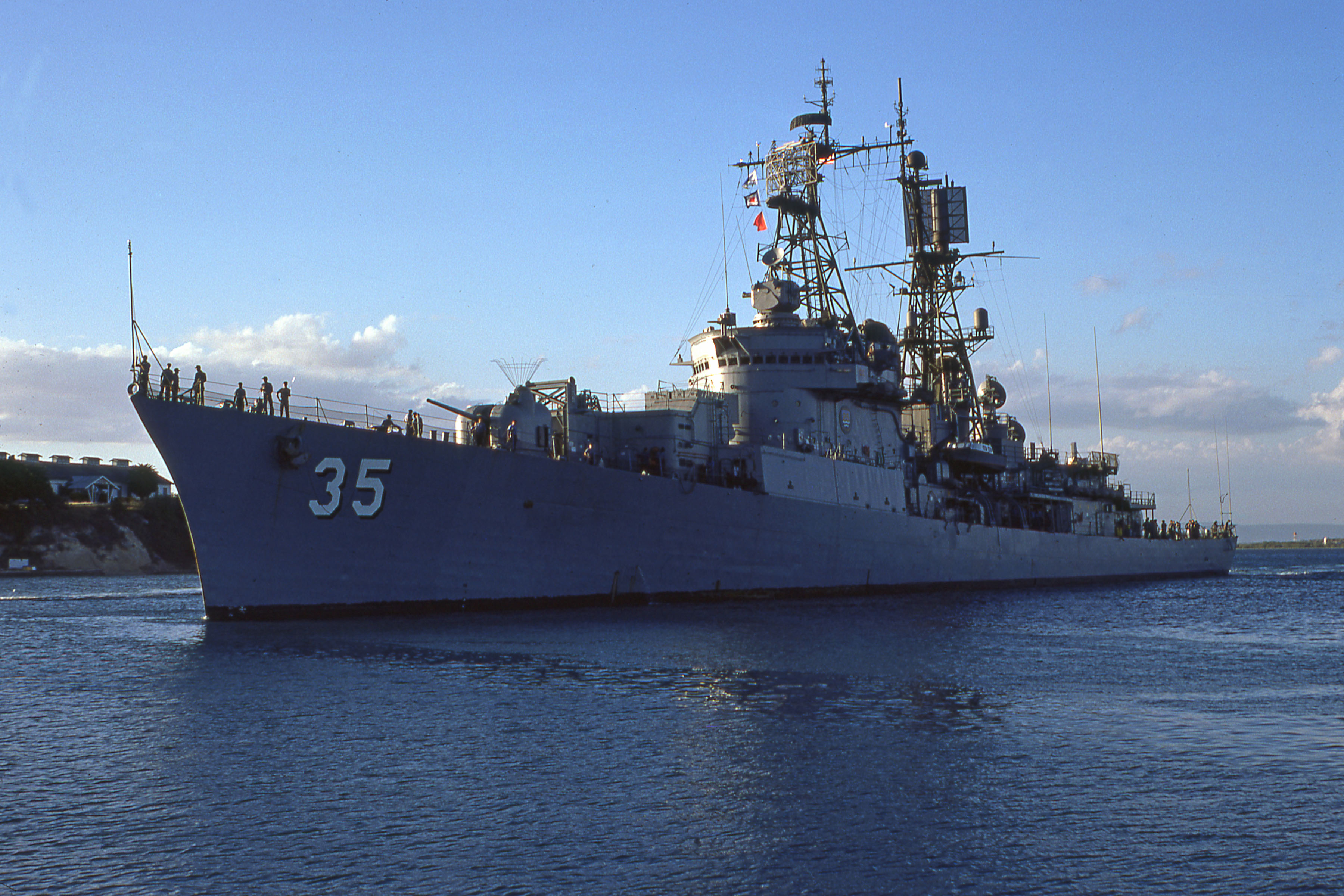 The U.S. Navy guided missile destroyer USS Mitscher (DDG-35) entering Guantanamo Bay, Cuba, on a late afternoon in January 1975.